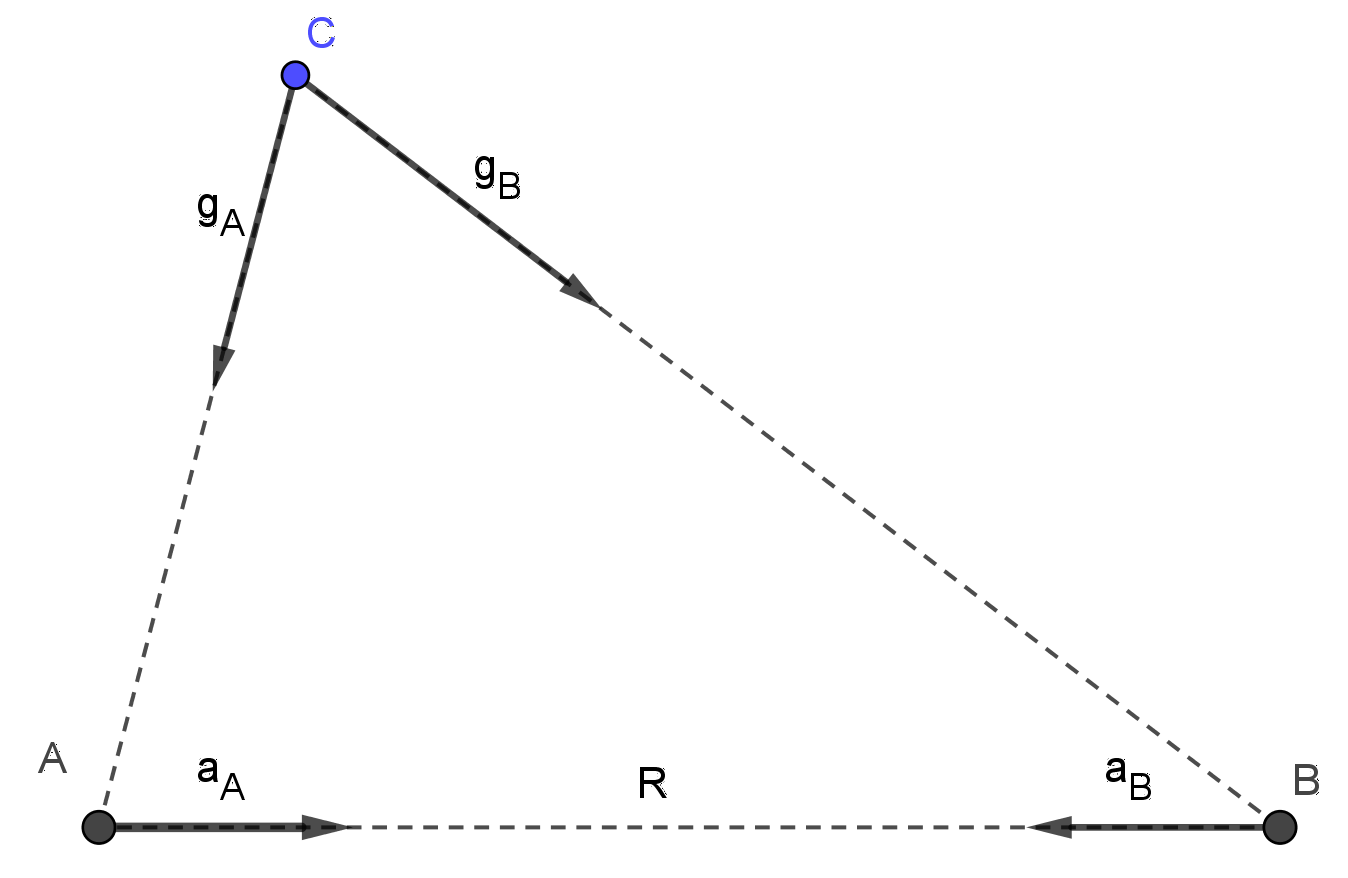 Picture for the derivation of the sphere of influence